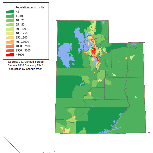 Population map of Utah, updated with 2010 census data.